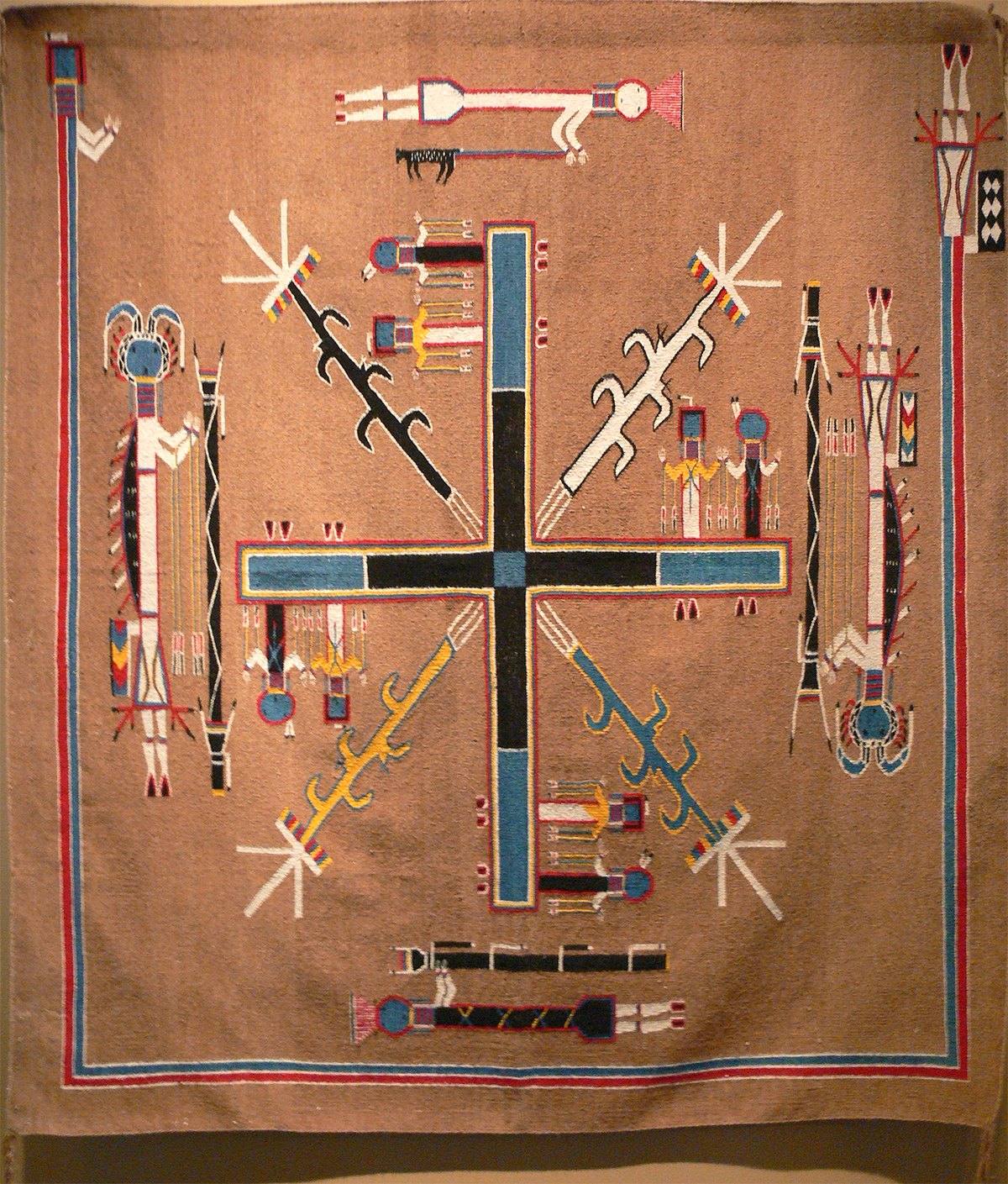 Tulsa, Oklahoma. Gilcrease Museum: Navajo sandpainting rug (1940) Most probably an image of Whirling Logs part of the Night Chant (see also: Donald Sander plate 3)